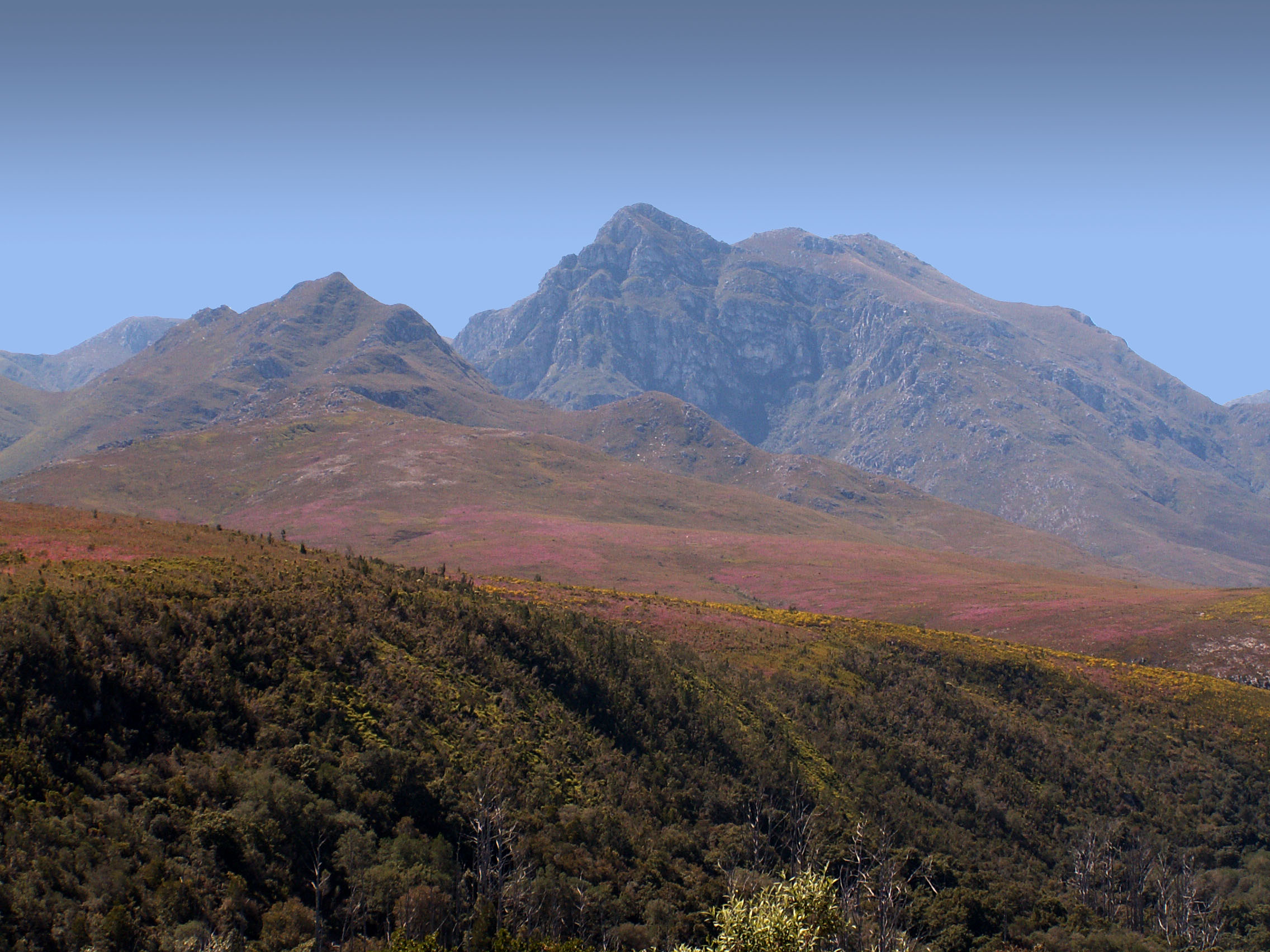 Grootberg and the mountain scenery of the Boosmansbos and Grootvadersbosch Nature Reserves in the Barrydale area of the Langeberg Range, Western Cape, South Africa